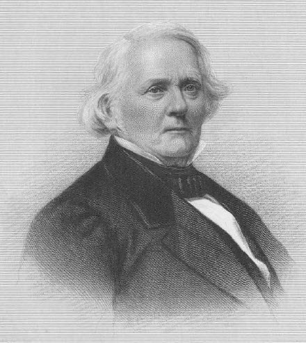 David Anthony - an early mill owner and businessman from Fall River, Massachusetts.